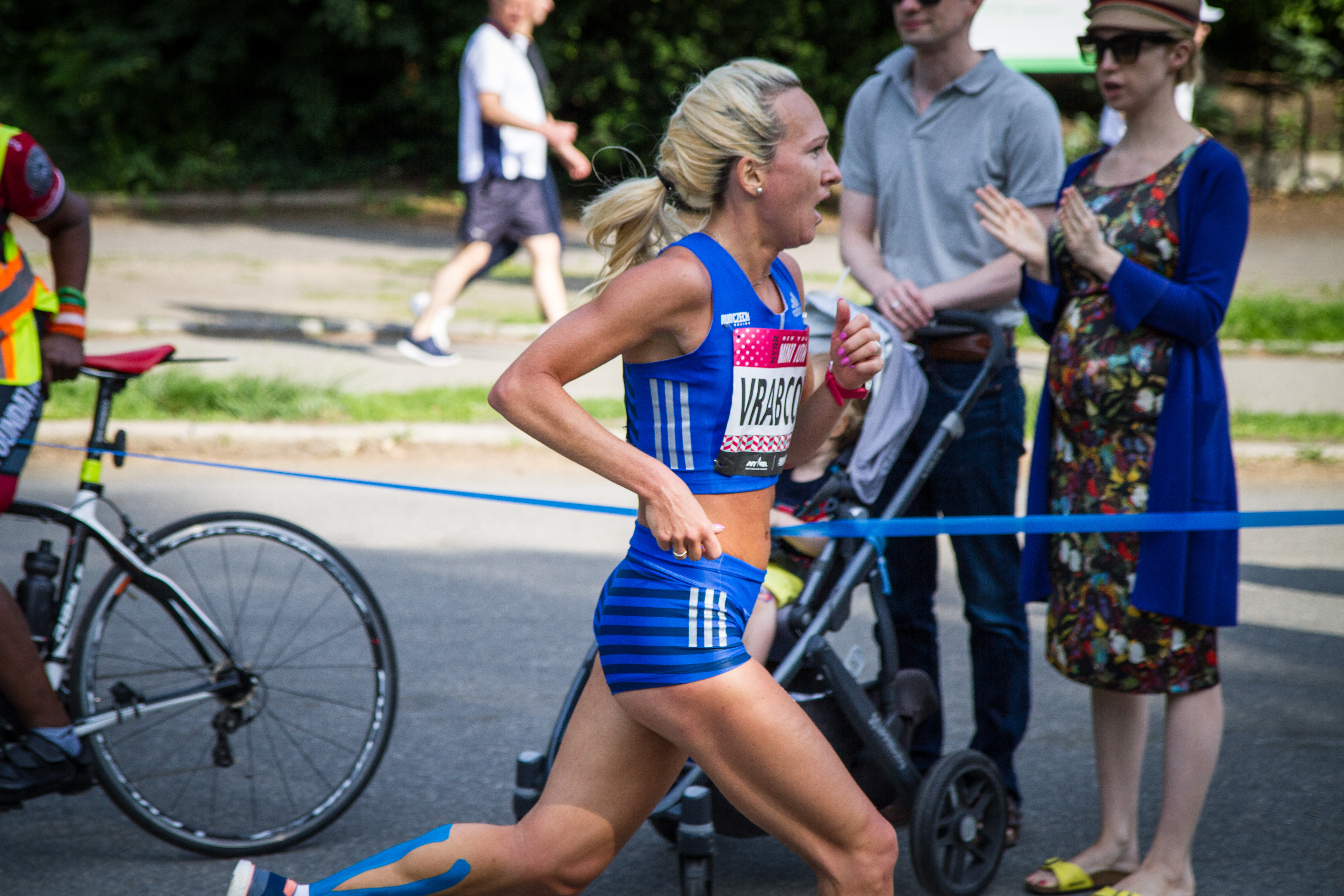 Elite women – NYRR Mini 10K 2018